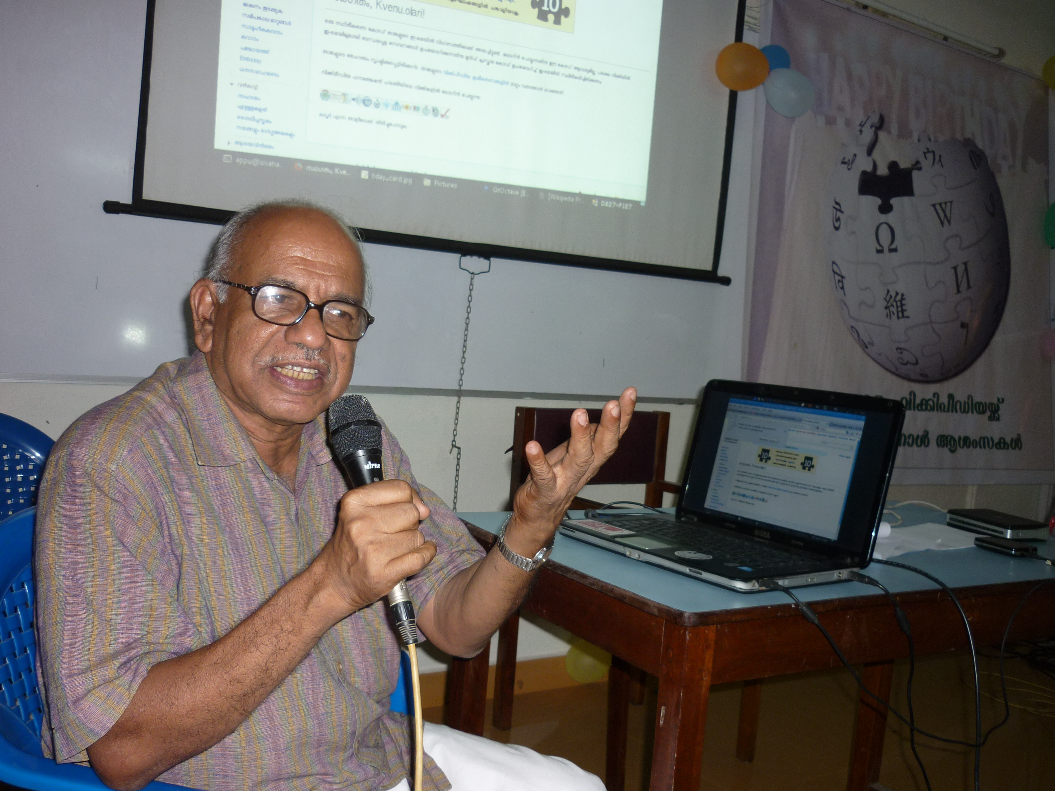 K Venu speaking at 10th Malayalam wikipedia birthday celebration